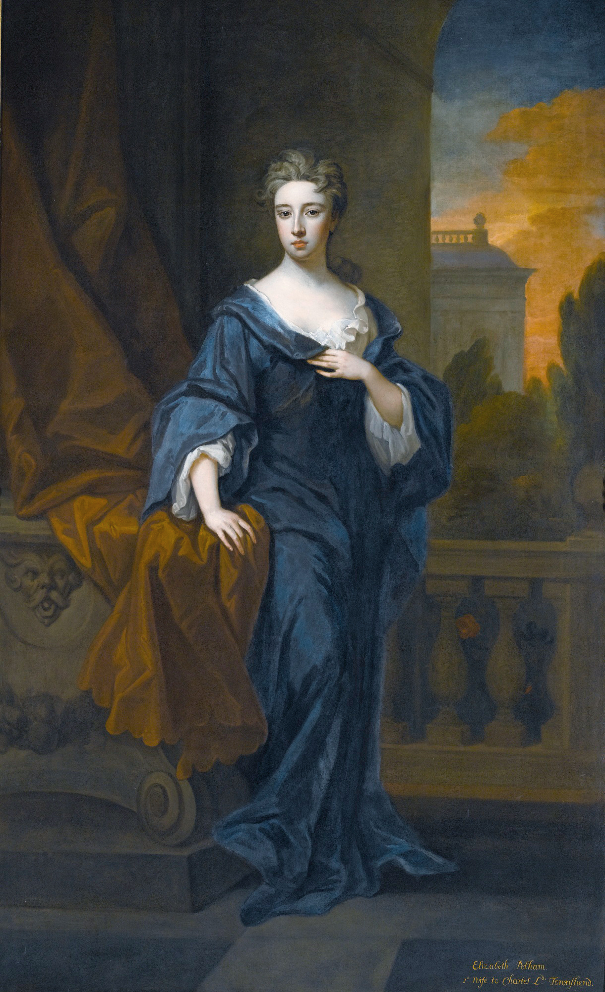 Elizabeth Pelham (1681-1711), first wife of Charles, 2nd Viscount Townshend oil on canvas 241 by 148 cm inscribed b.r.: Elizabeth Pelham. / 1st Wife to Charles Ld. Townshend signed b.l.: GK late 1690s